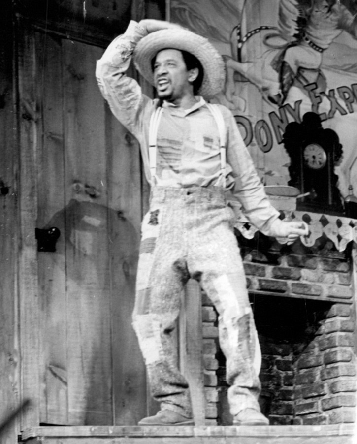 Photo of Sherman Hemsley in the Broadway musical Purlie.